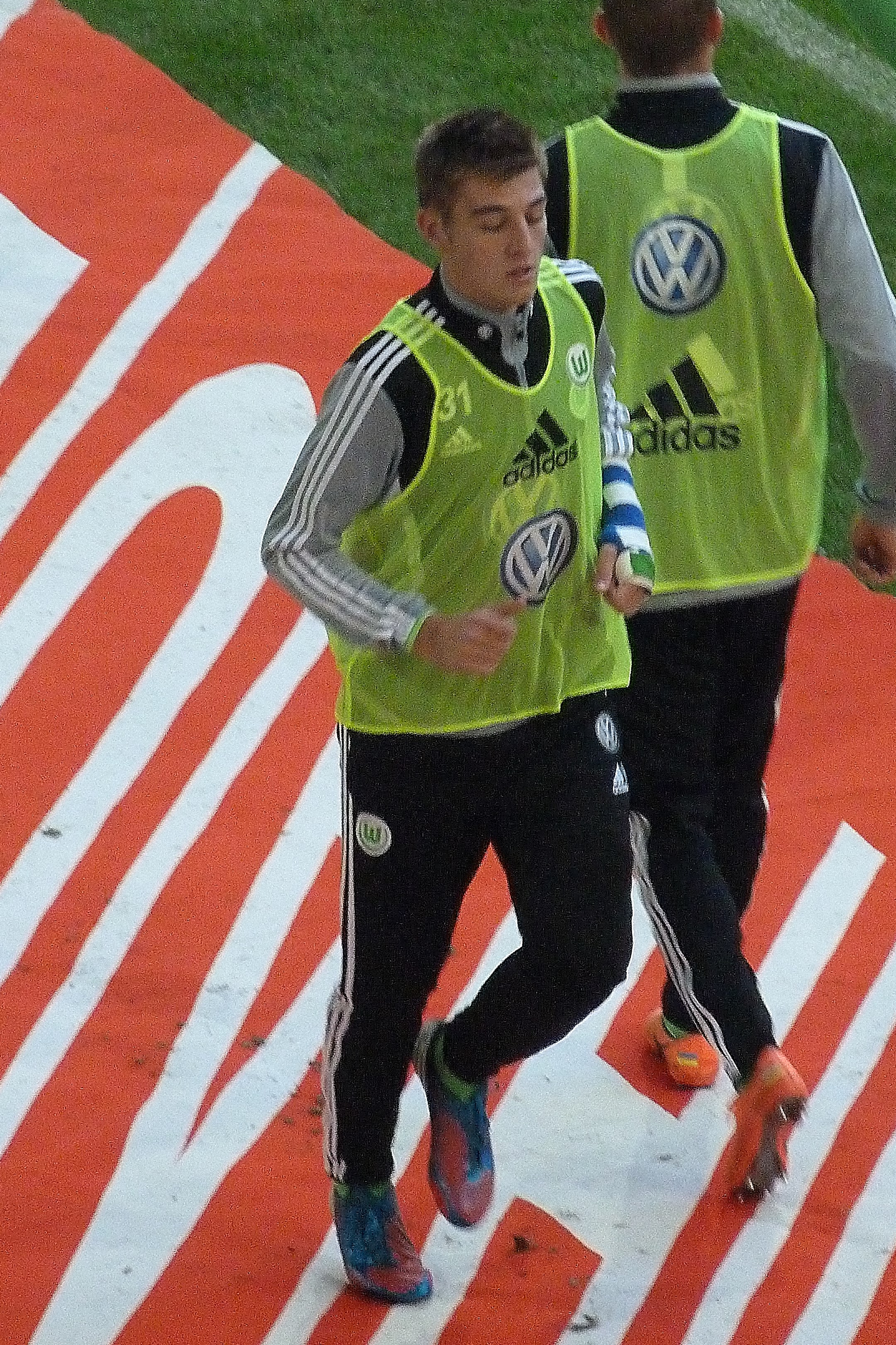 Robin Knoche as Player from VfL Wolfsburg